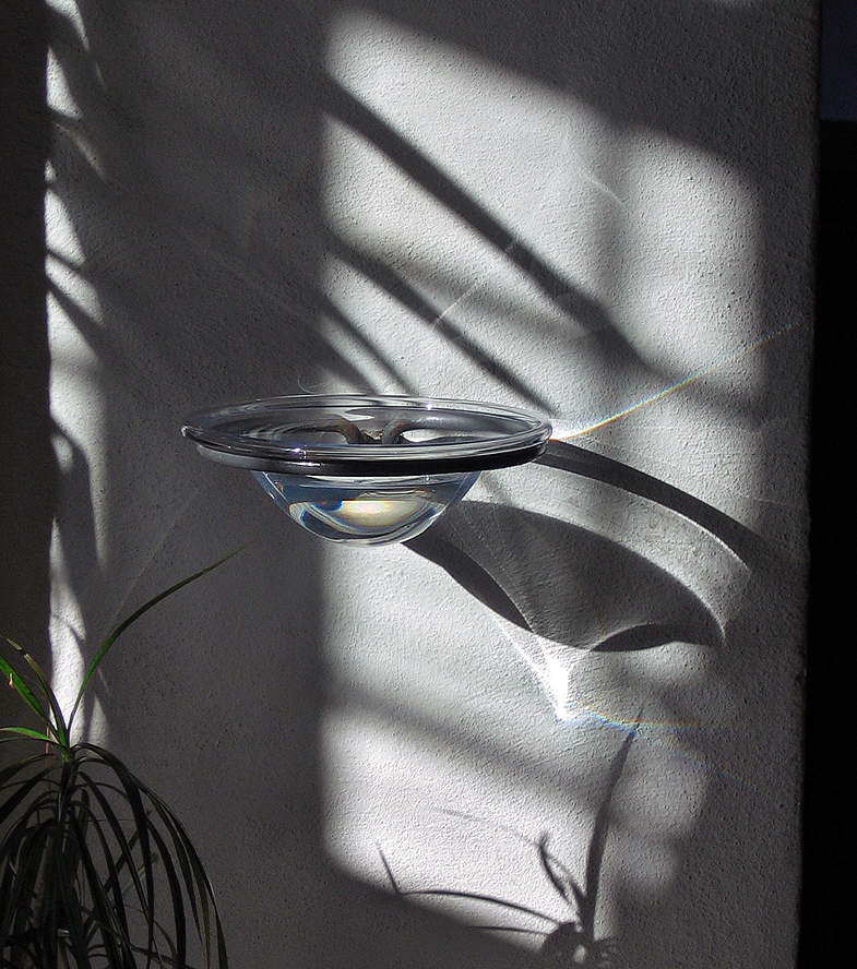 Holy water at the entrance to the Catholic Church in Ystad / Sweden.